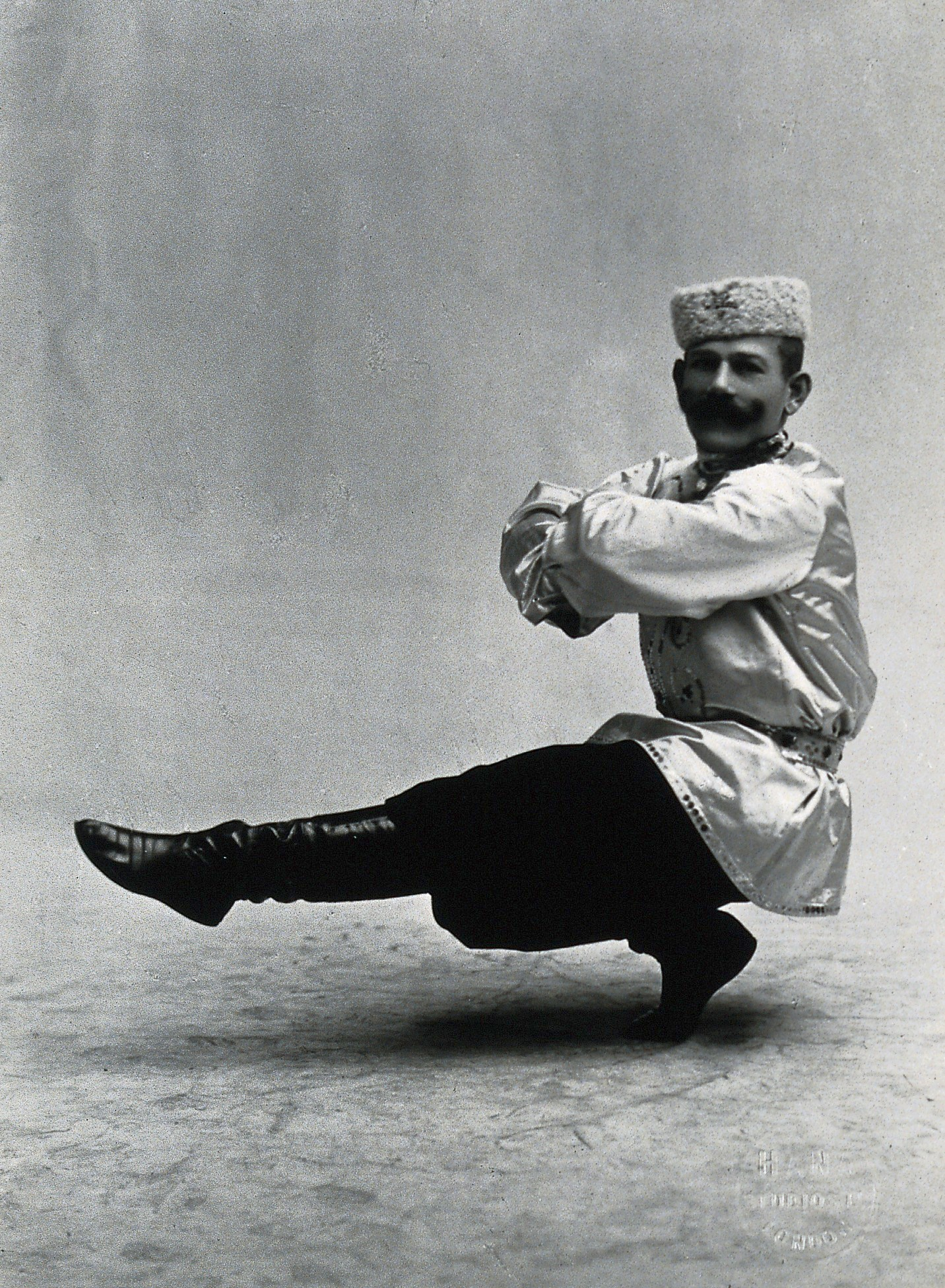 A man, in a satin tunic and fur hat, dancing a "Cossack" measure (hopak) in a studio setting. Photograph, ca.1899-1908